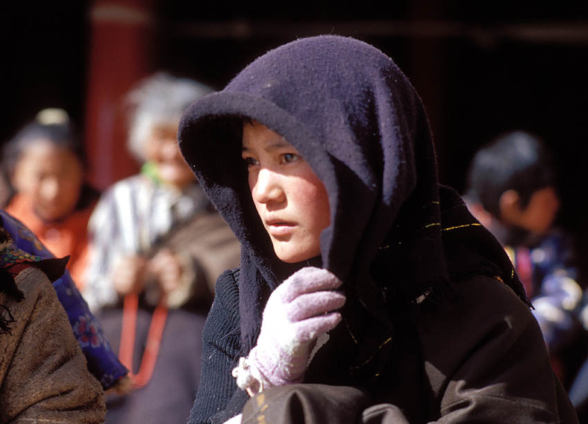 A Tibetan girl at the Tibetan New Year event in Aba, Sichuan Province, China